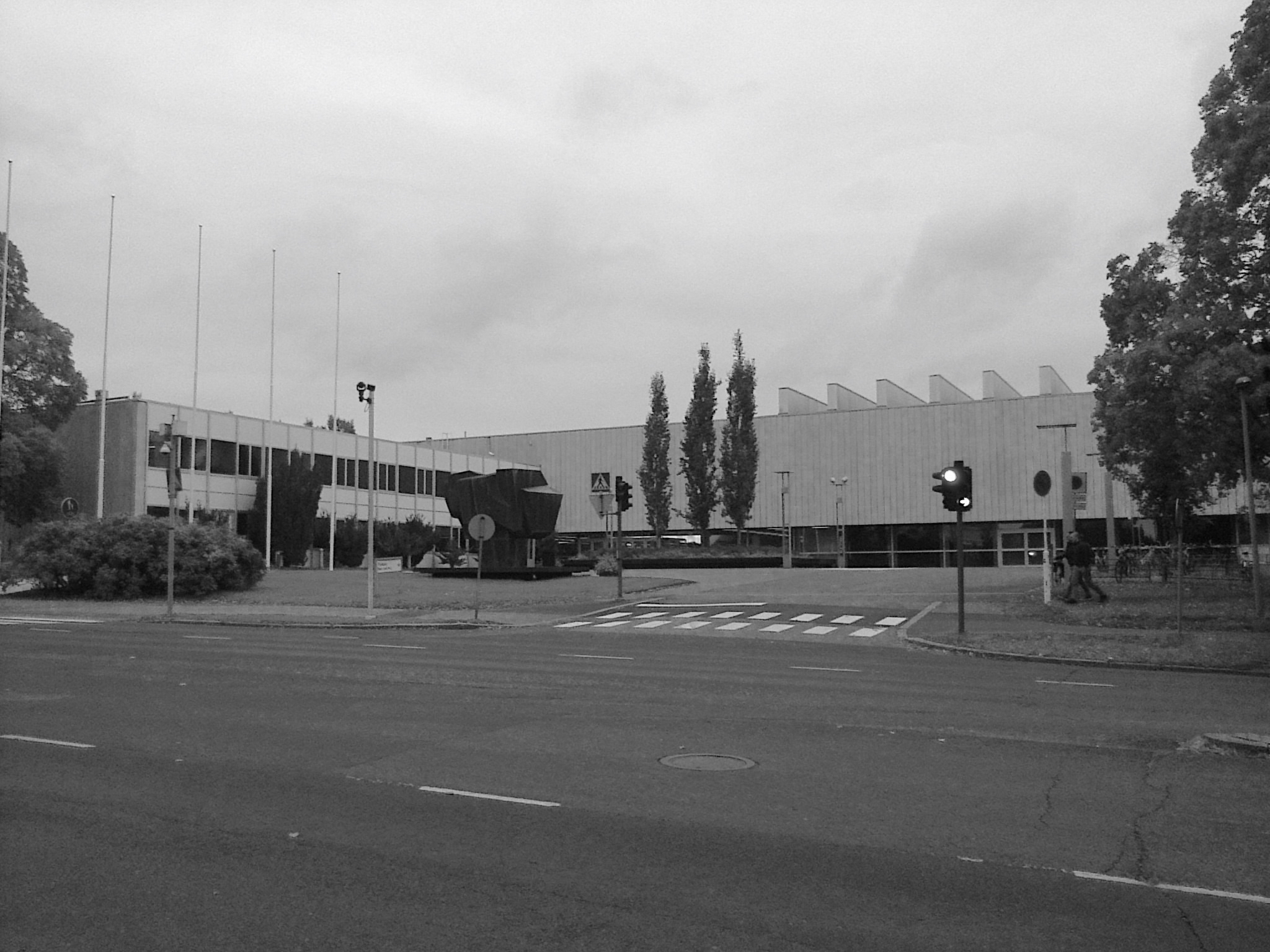 Tampere University Main Building, architect Toivo Korhonen (1960).